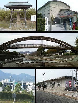 Aizumi montage